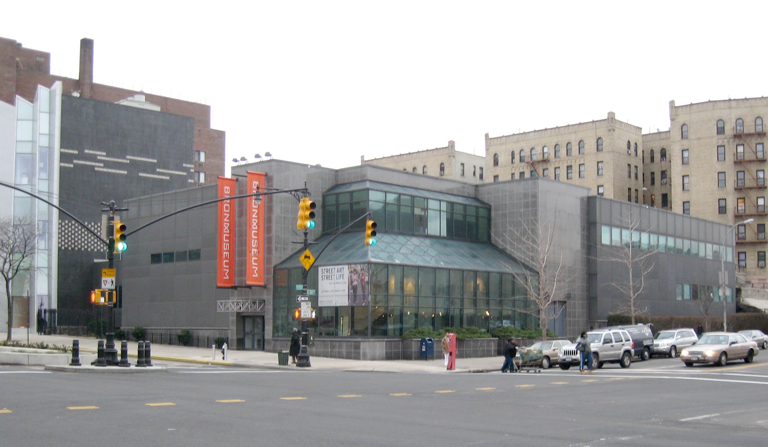 Looking northeast across Grand Concourse (Bronx) and East 165th Street on a cloudy afternoon at Bronx Museum of the Arts. See also File:Bronx-museum.JPG.